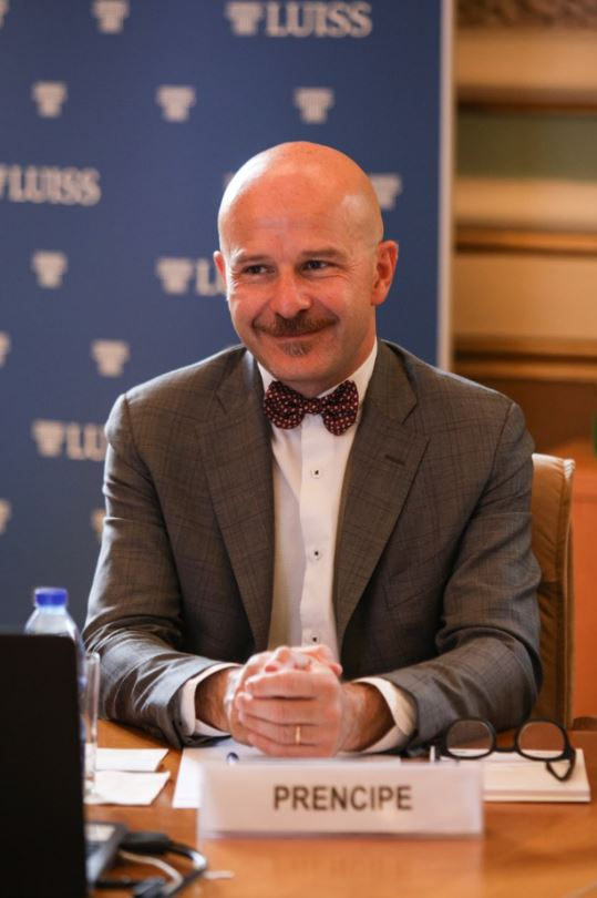 Rector of the Luiss Guido Carli University